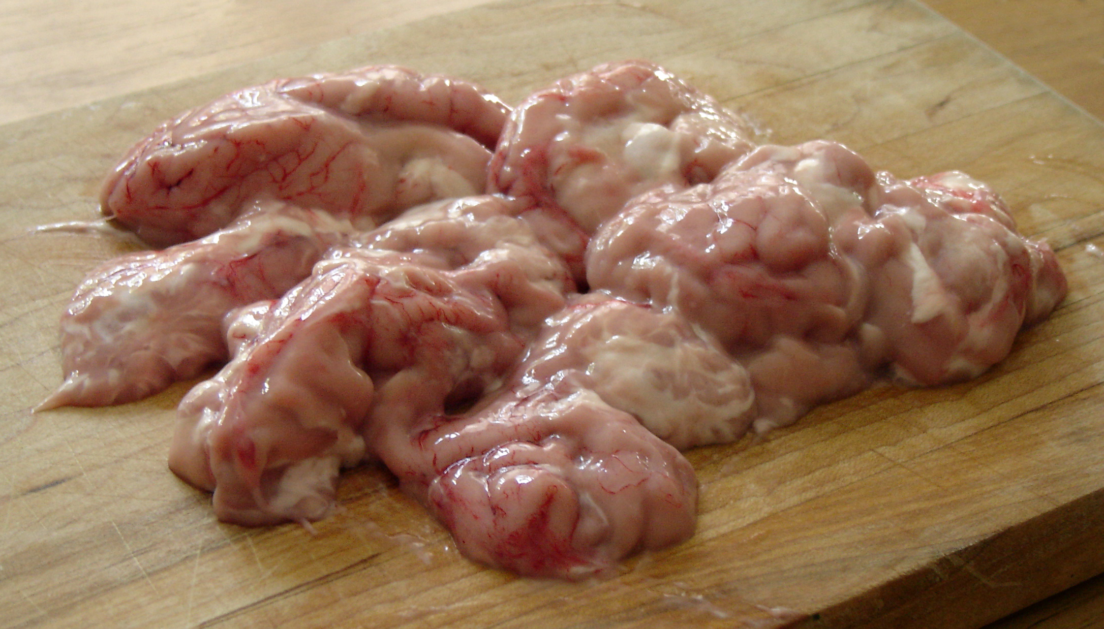 Pork brain, ready for cooking.